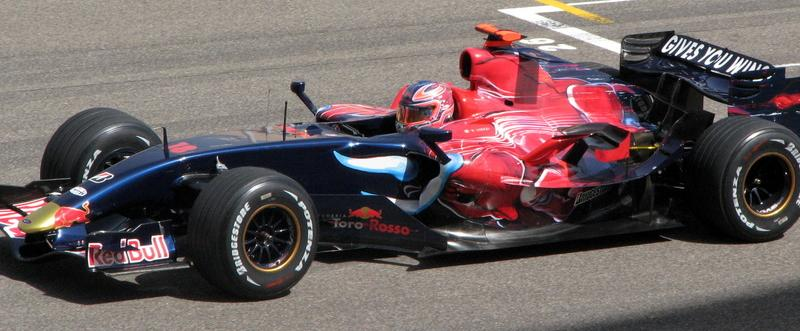 Vitantonio Liuzzi driving for Scuderia Toro Rosso at the 2007 Bahrain Grand Prix.